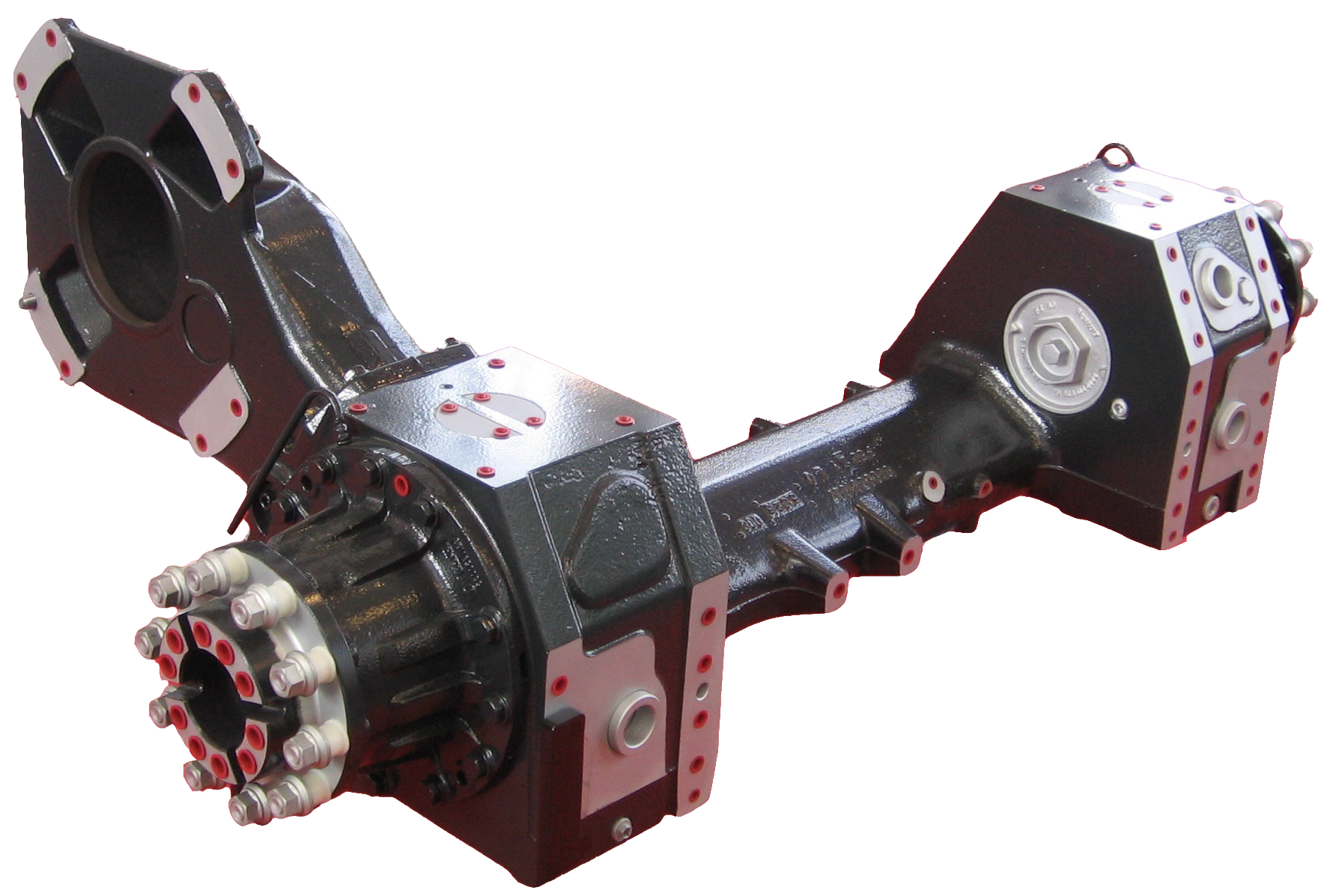 Photo of a driven axle of an Alstom Citadis low-floor tram, made by Texelis, displayed at at Innotrans Berlin in 2010. A display sign next to the axle stated: "Texelis: Tramway driven axle. Load capacity 12.5 tons. Reduction 6.9. Initial torque 800 Nm. Electric motor 4500 rpm. More than 10,000 axles in service."